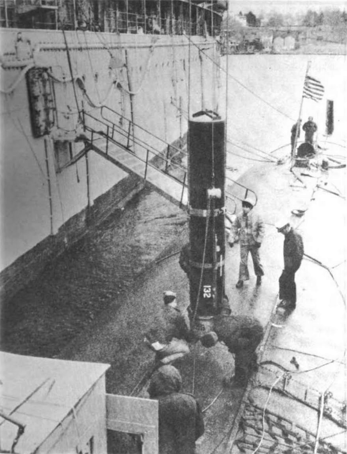 Here is a Captor being loaded aboard submarine up at New London. This was a preliminary fit test. They put it aboard the submarine and moved it with their handling gear and shoved it in the torpedo tubes and so forth.